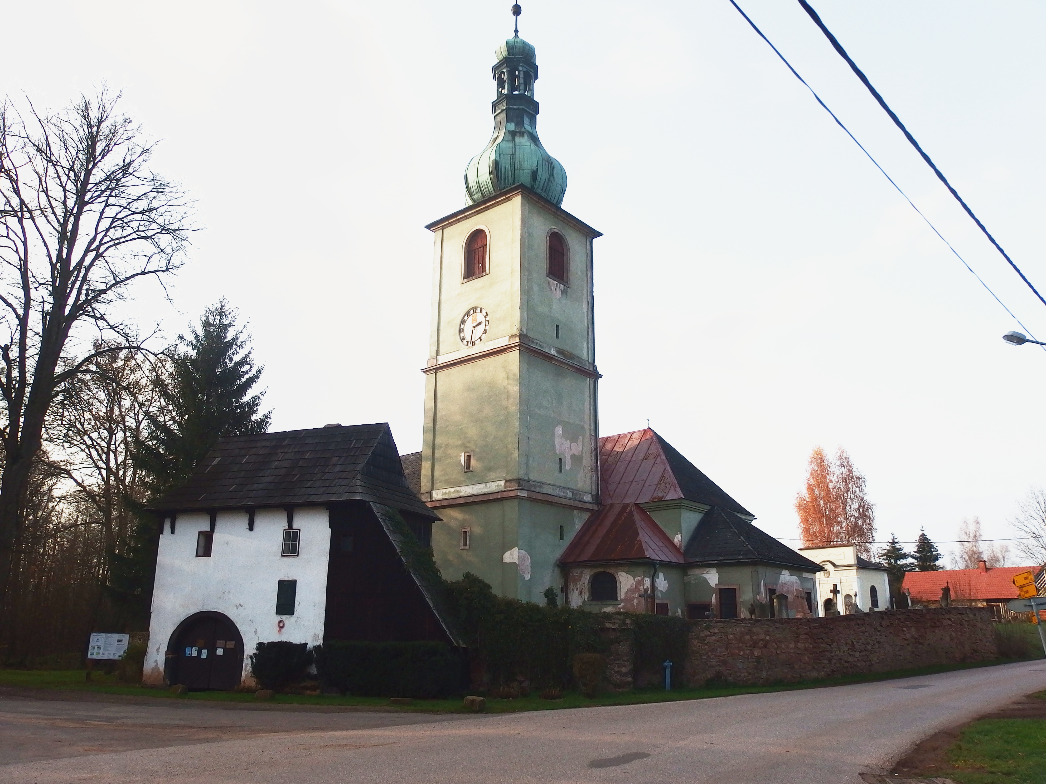 Vlčice, Trutnov District, Czech Republic. Church of Saint Adalbert and cemetery.